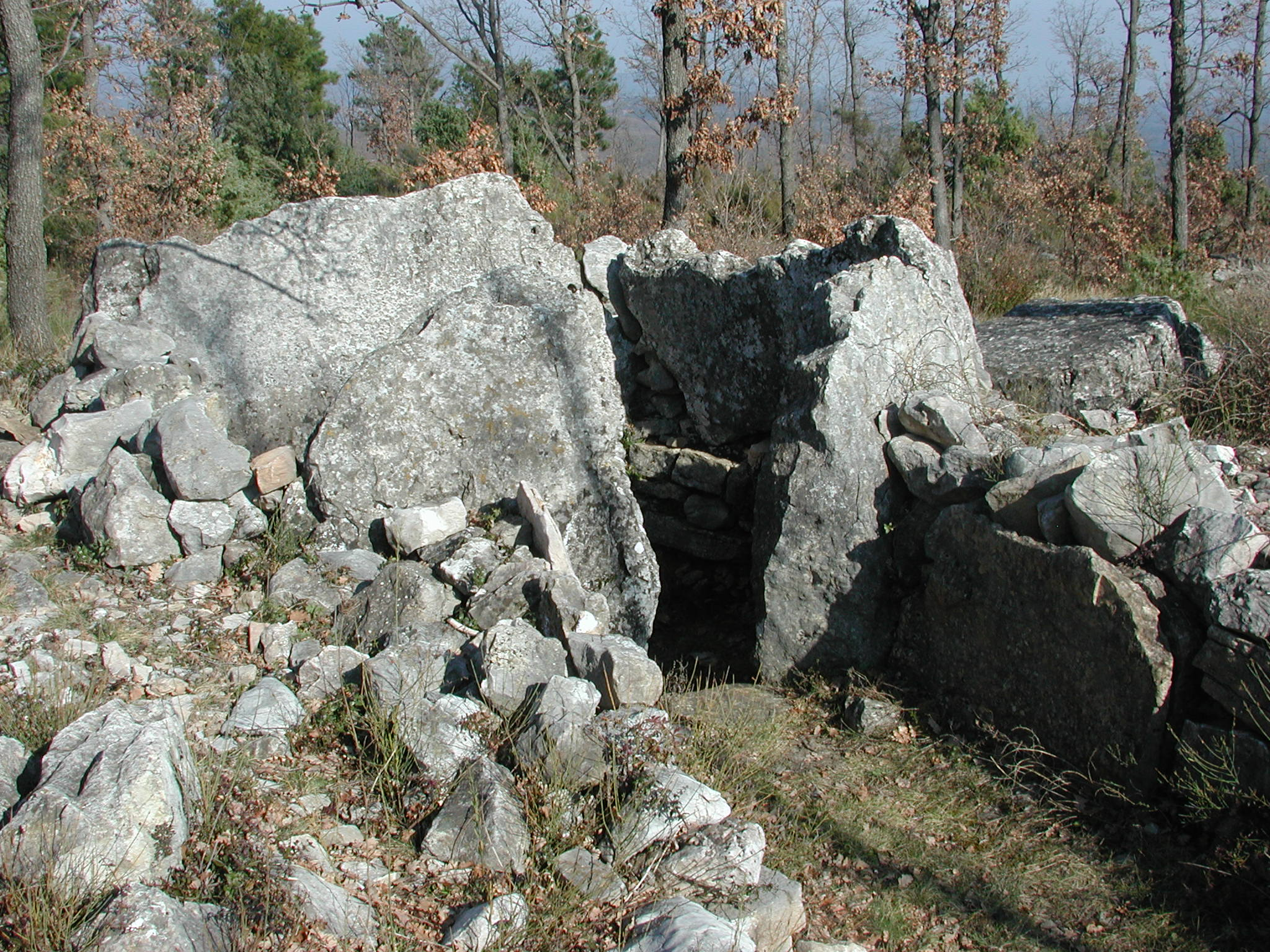 Mons(Var : Peygros's dolmen